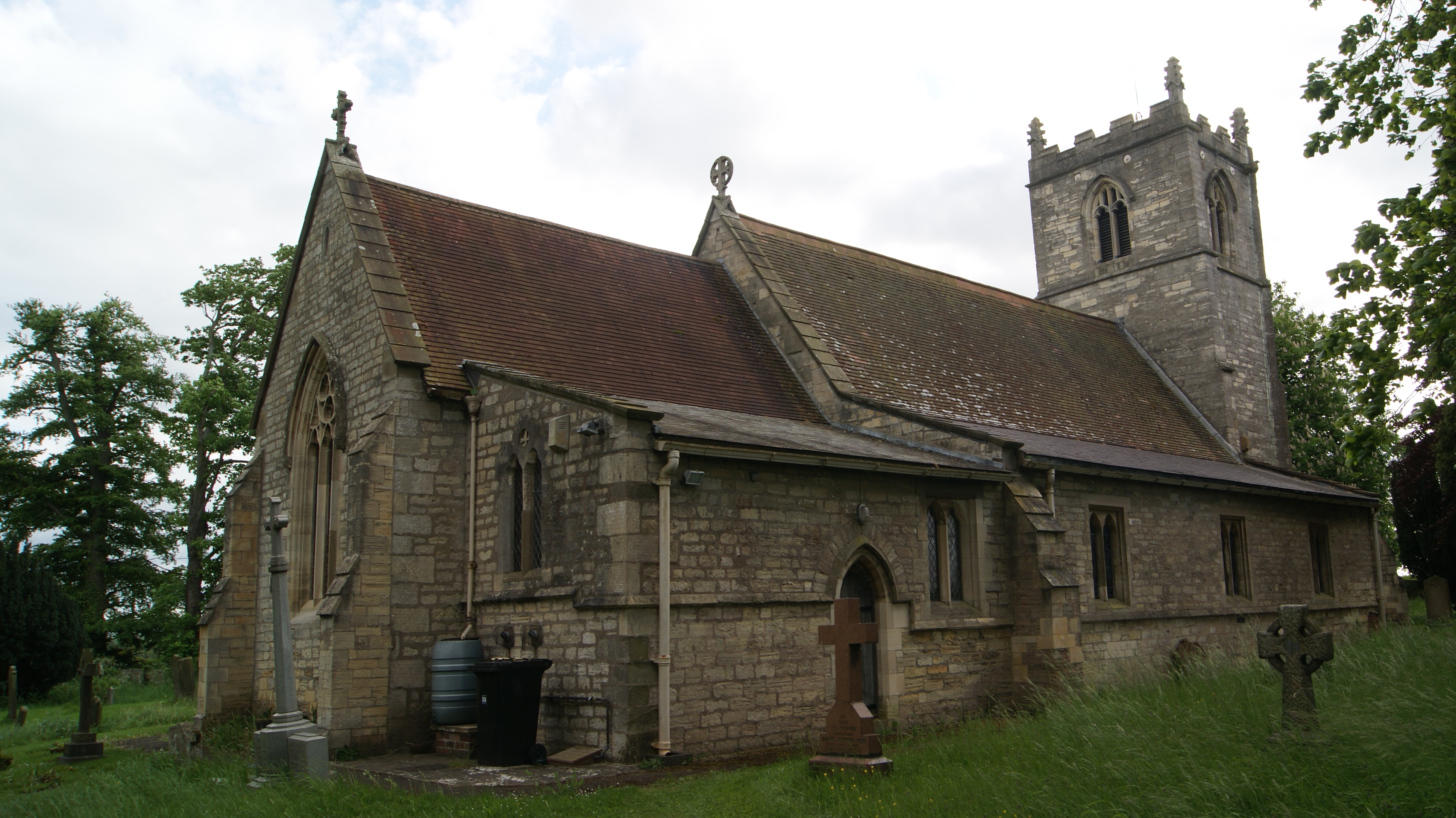 All Saints' Church, Church Causeway, Thorp Arch, West Yorkshire. Taken on the evening of Tuesday the 24th of May 2016.